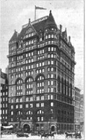 Hotel New Netherland, in New York City, renamed Hotel Netherland in 1908. Architect William Hume.